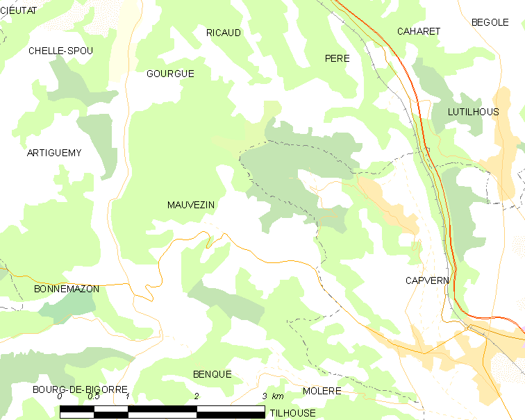 Map of French municipality